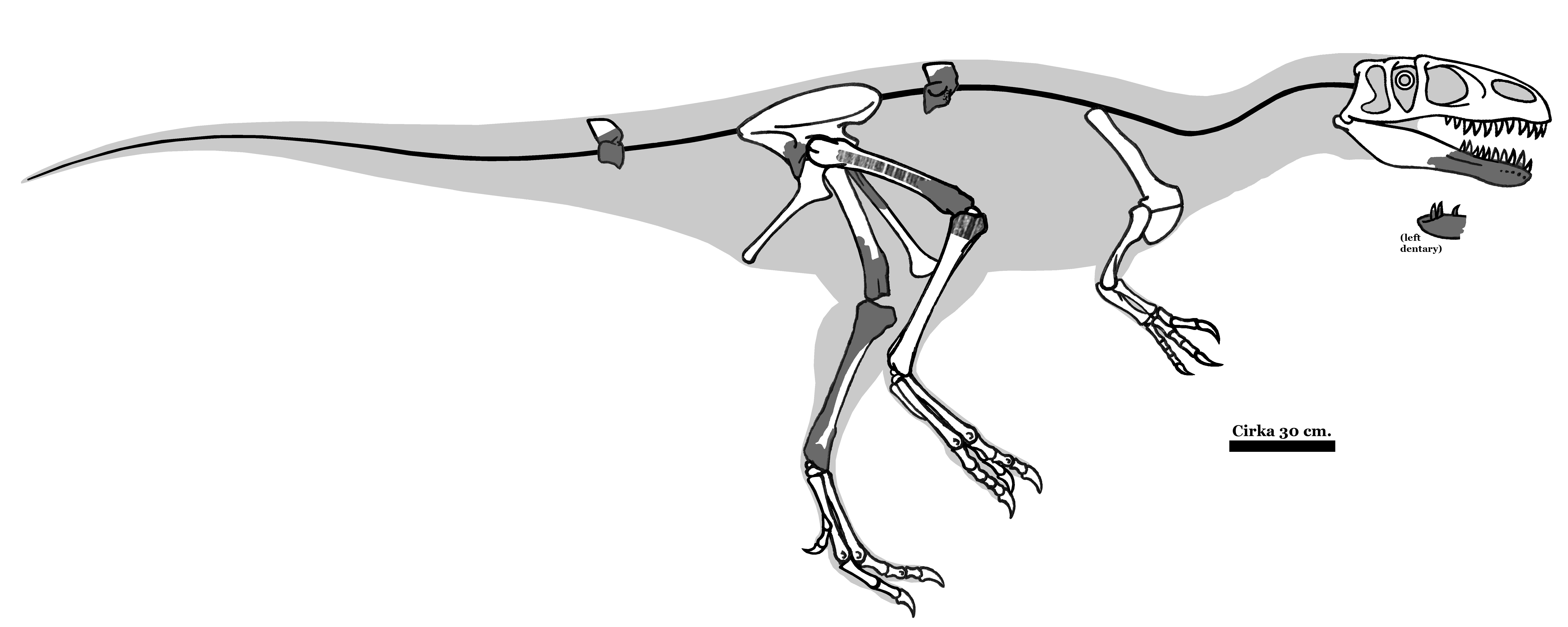 Fossil remains of the theropod dinosaur Magnosaurus, based on the holotype OUMNH J. 12143.[1] Known elements are coloured grey, and missing elements are restored (in white), based on other members of the family megalosauridae. Crosshatched areas are remains which are uncertain or not shown with photos by Benson.[1] References ↑ a b Benson R.B.J. (2010), "The osteology of Magnosaurus nethercombensis (Dinosauria, Theropoda) from the Bajocian (Middle Jurassic) of the United Kingdom and a re-examination of the oldest records of tetanurans", Journal of Systematic Paleontology 8(1): p. 131-146. Skeleton diagram of Eustreptospondylus, Afrovenator and Torvosaurus. Mounted Eustreptospondylus skeleton.